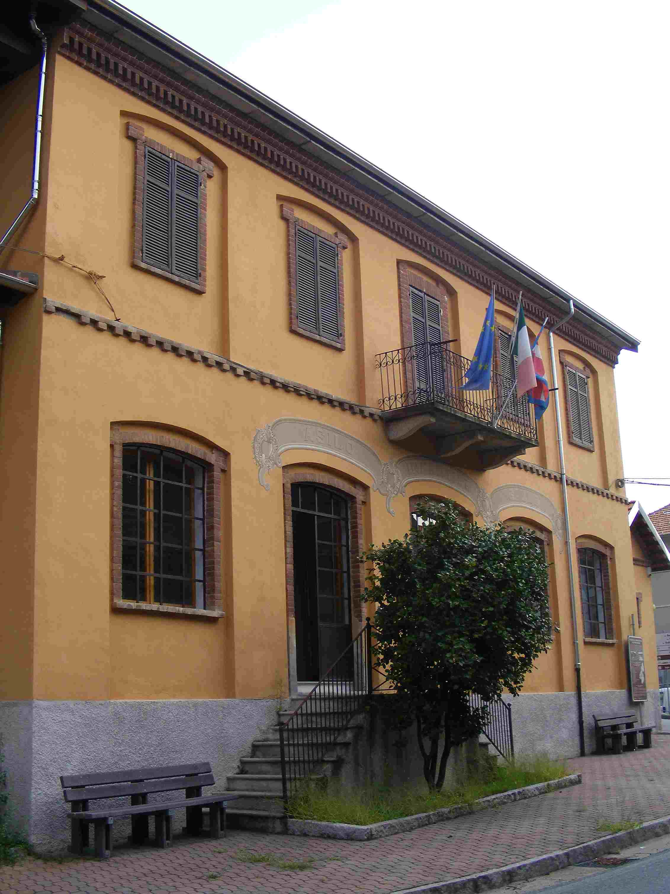 Casapinta (Piedmont, Italy): Comunità Montana Prealpi Biellesi headquarter